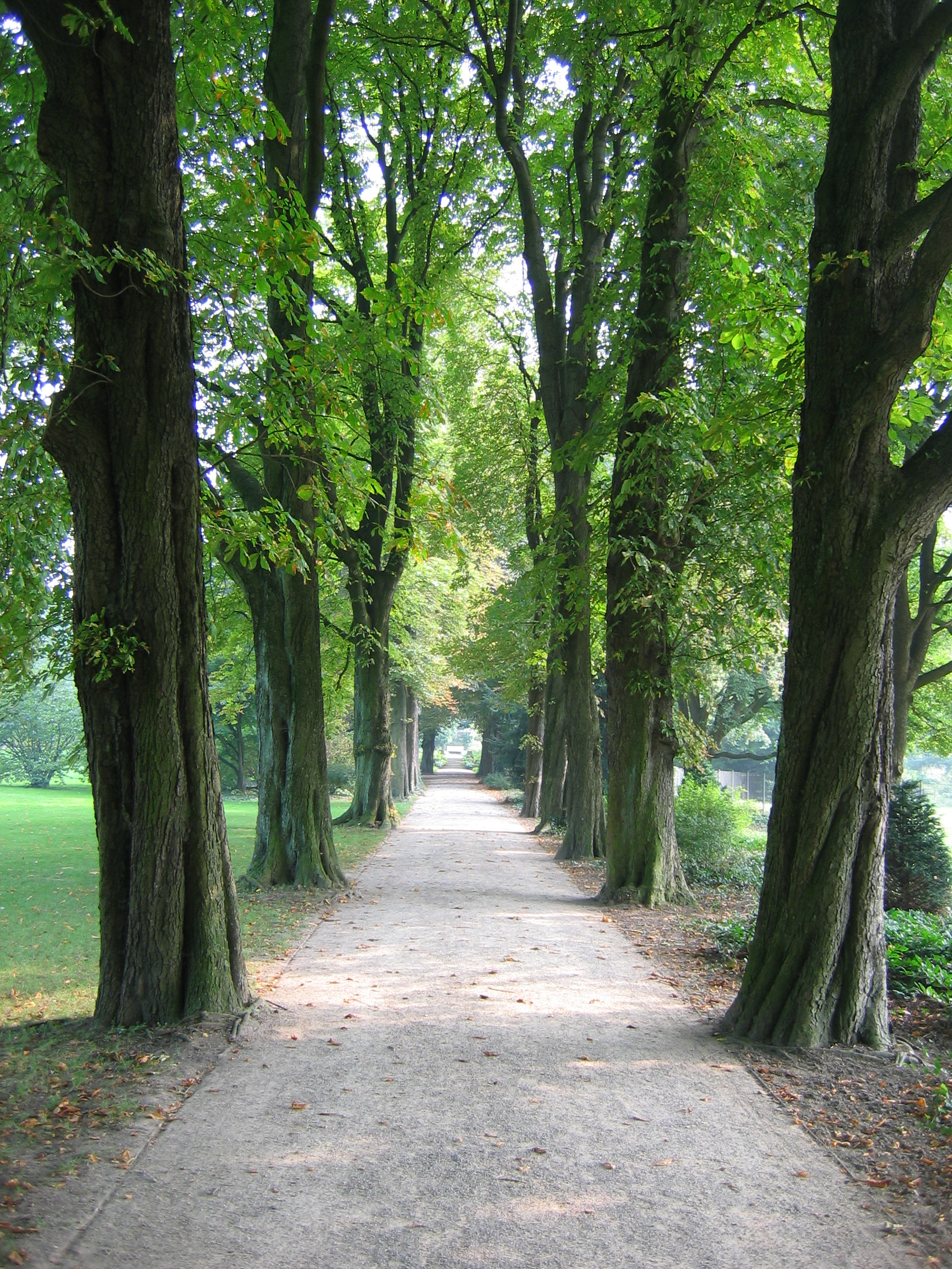 Chestnut Avenue in the Poensgenpark in Ratingen